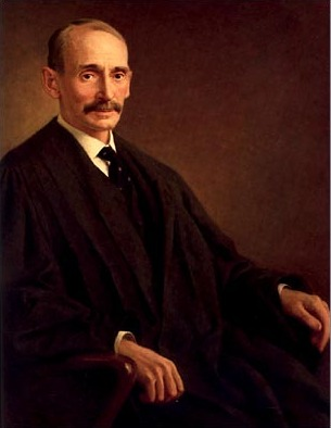 William Rufus Day (April 17, 1849–July 9, 1923) was an American diplomat and jurist.